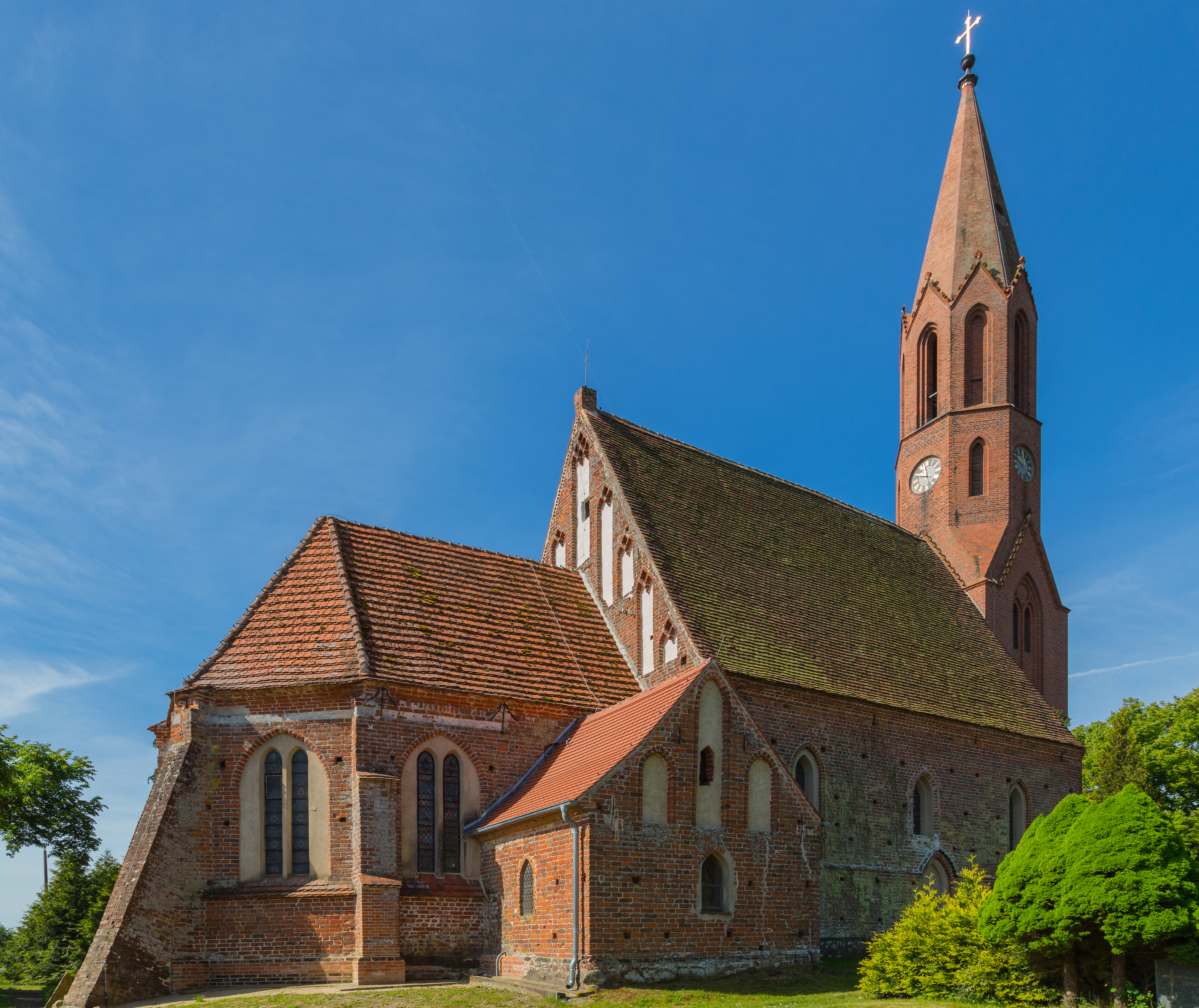 The Protestant St James the Greater Church (St.-Jacobi-Kirche) in Kasnevitz, district of Putbus, Landkreis Vorpommern-Rügen, Mecklenburg-Vorpommern, Germany. The church is a listed cultural heritage monument.